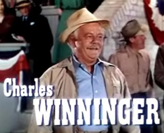 Cropped screenshot of Charles Winninger from the trailer for the film State Fair